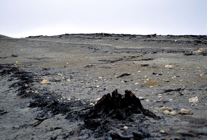 Axel Heiberg Island: Mummified Metasequoia ocidentalis stump and forest floor, Mummified forest on Geodetic Hills